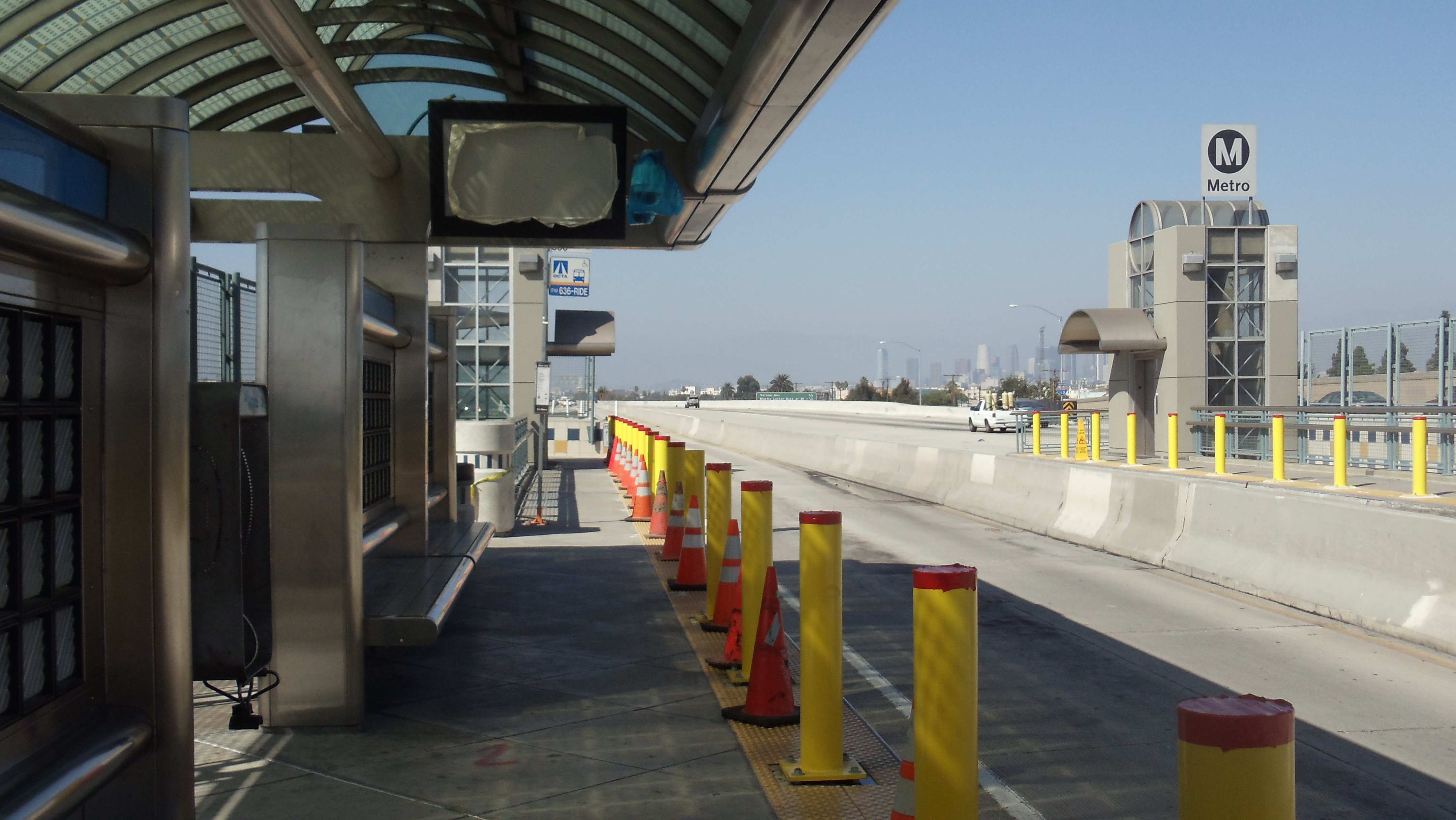 Southbound platform and station exit.